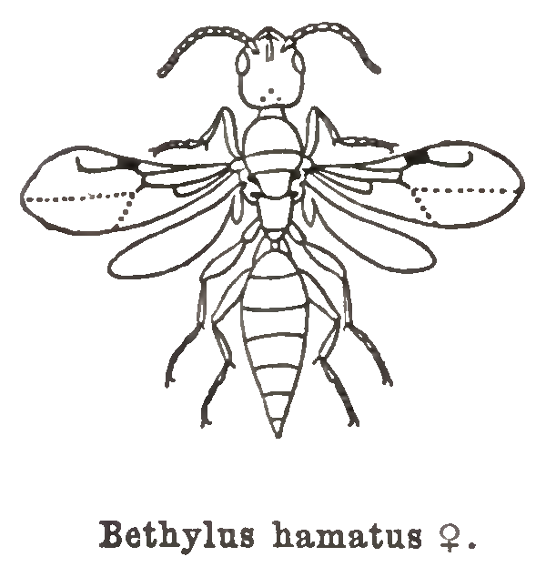 Bethylus hamatus female